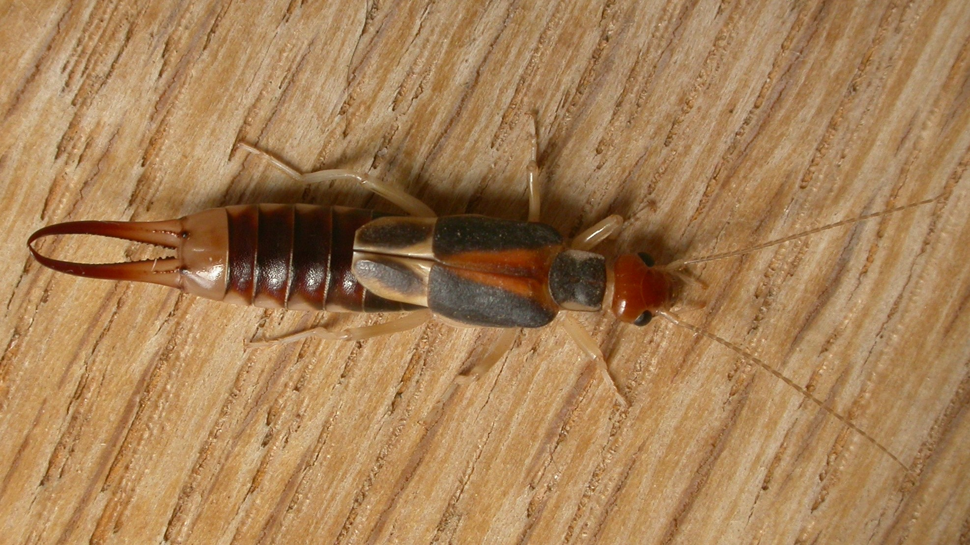 Labidura riparia